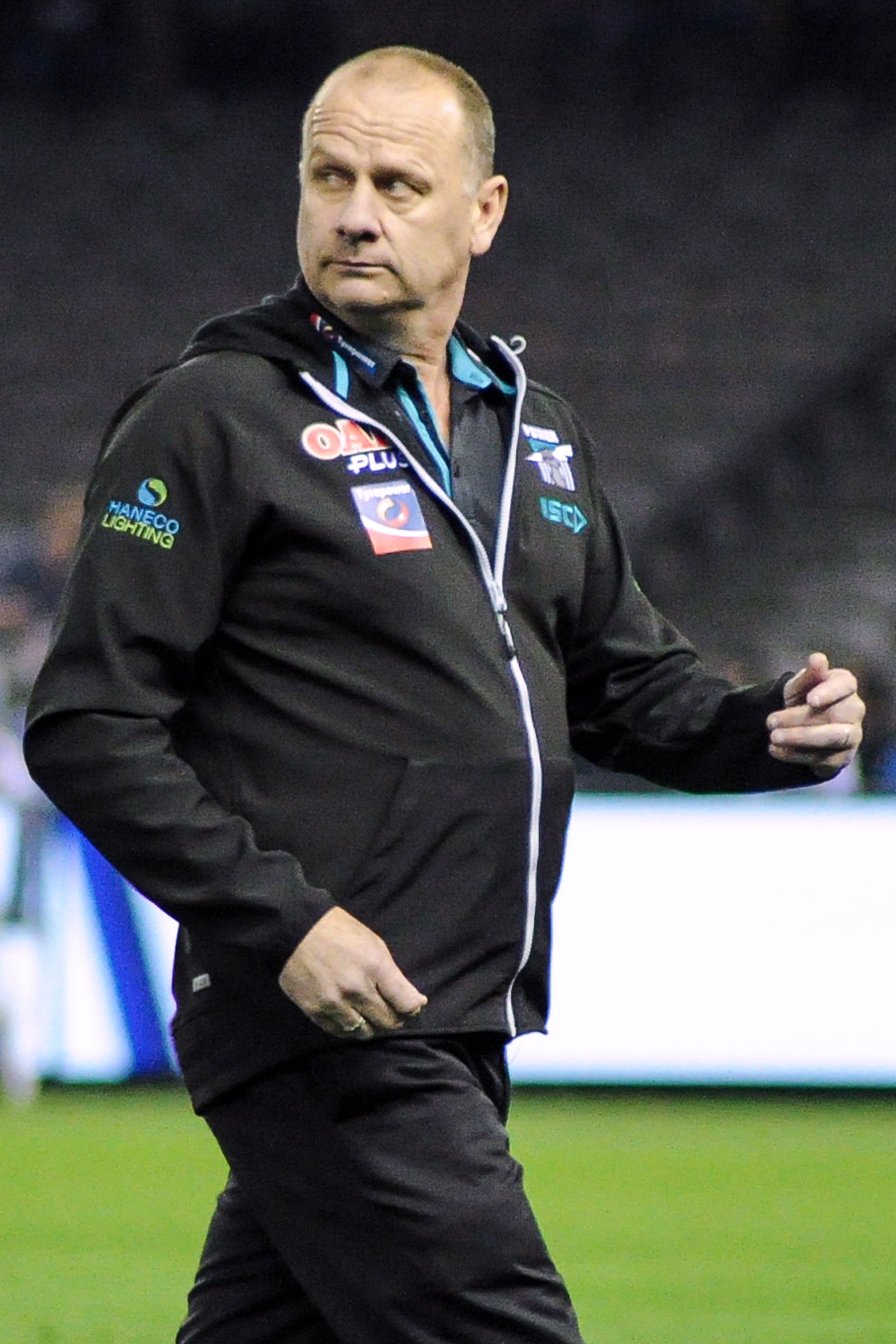 Ken Hinkley during the AFL round six match between North Melbourne and Port Adelaide on Saturday, 28 April 2018 at Etihad Stadium in Melbourne, Victoria.